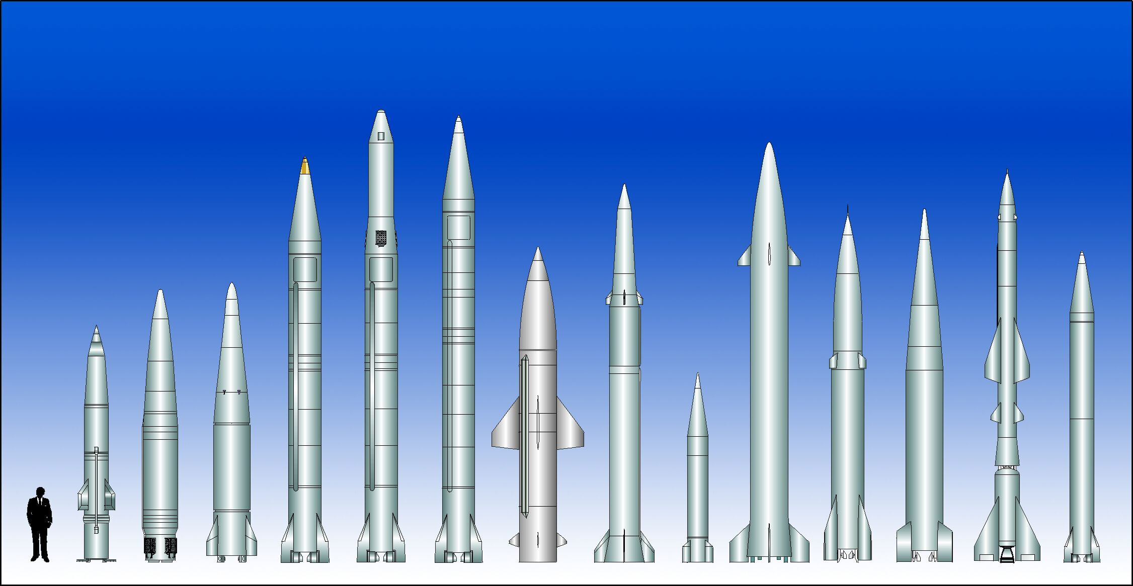 SRBM (Short-range ballistic missile) Comparison.From left to right: SS-21 (Russia) SS-23 (Russia) SS-26 Iskander-E (Russia) SS-1c Mod1 (Russia) SS-1c Mod2 (Russia) Al Hussein (Iraq) Prithvi (India) Vector (?) Hatf-1 (Pakistan) Shaheen (Pakistan) CSS-7 (China) CSS-6 (China) CSS-8 (China) Al Samoud (Iraq)